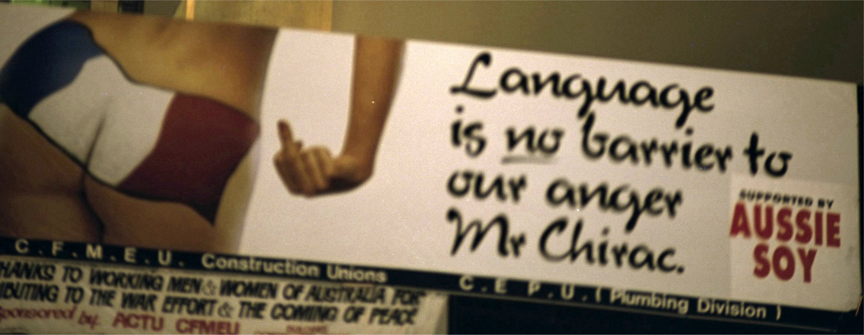 In 1996, protests in Australia about french nuclear tests in Pacific . "Language is no barrier to our anger Mr Chirac" say legend